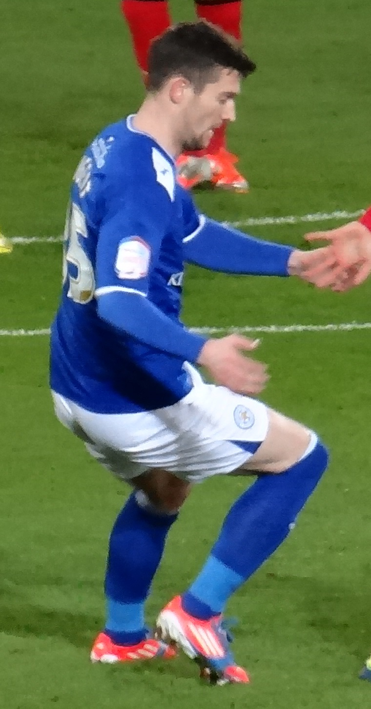 12/03/13 Cardiff v Leicester, Championship, Cardiff City Stadium, Cardiff, Wales